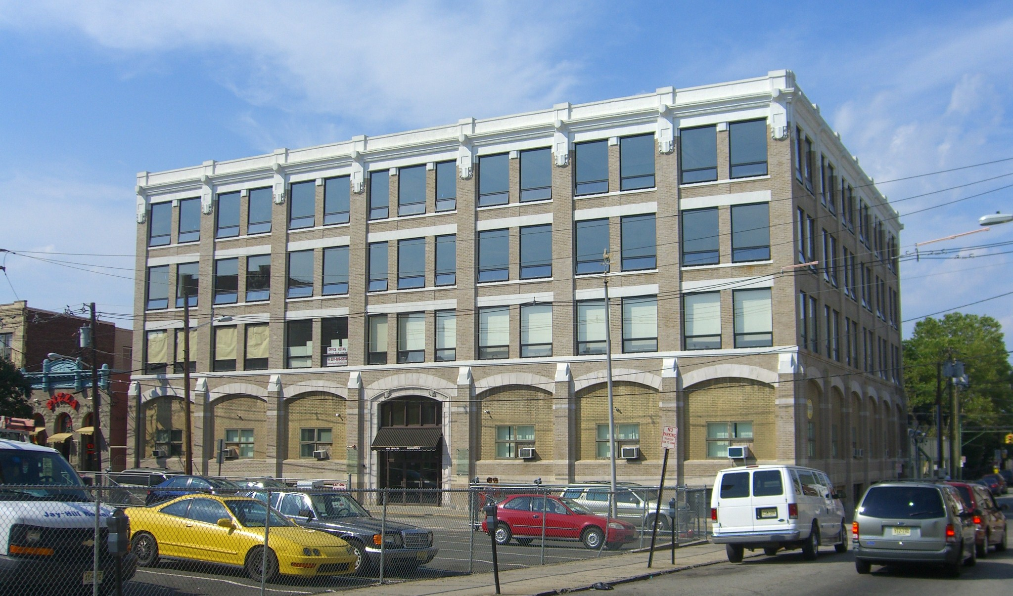 The former building of the Hudson Dispatch newspaper, on 38th Street between New York Avenue and Bergenline Avenue in Union City, New Jersey. This photo was created by Luigi Novi. It is not in the public domain, and use of this file outside of the licensing terms is a copyright violation.